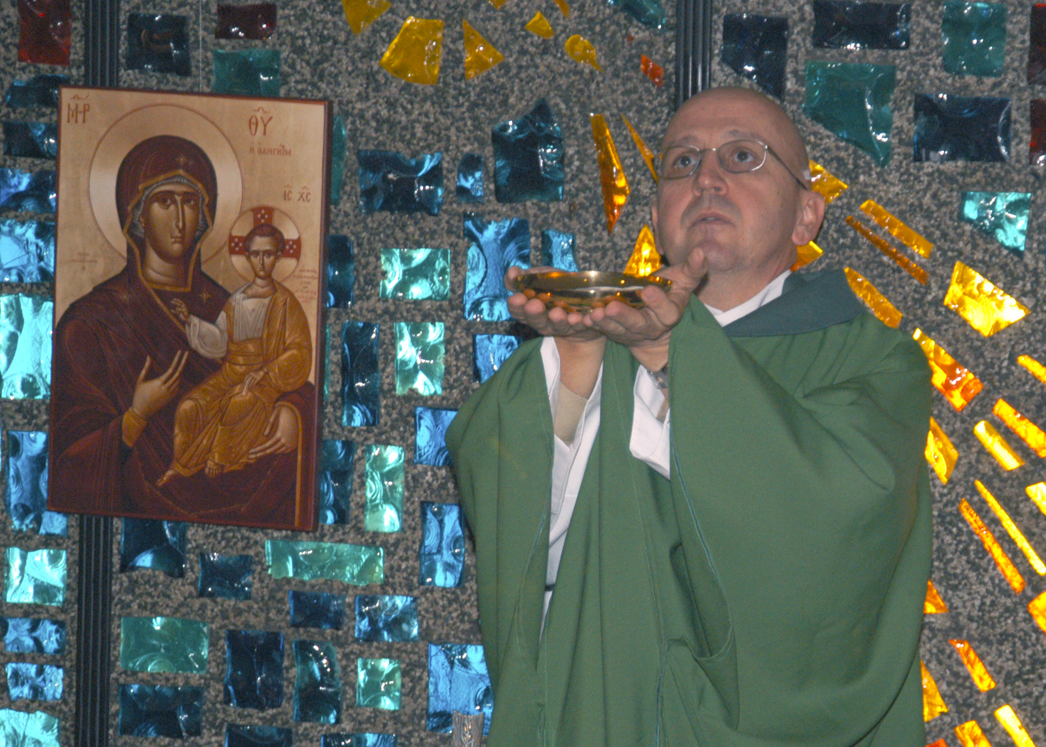 Atlantic Ocean (Oct. 5, 2003) -- Lt. Cmdr. Allen R. Kuss, the Roman Catholic priest aboard USS Enterprise (CVN 65) administers the Sunday evening Catholic Mass service in the ship's multi-denominational Chapel. Enterprise is underway in the Atlantic Ocean. U.S. Navy photo by Photographer' s Mate Airman Milosz Reterski. (RELEASED)